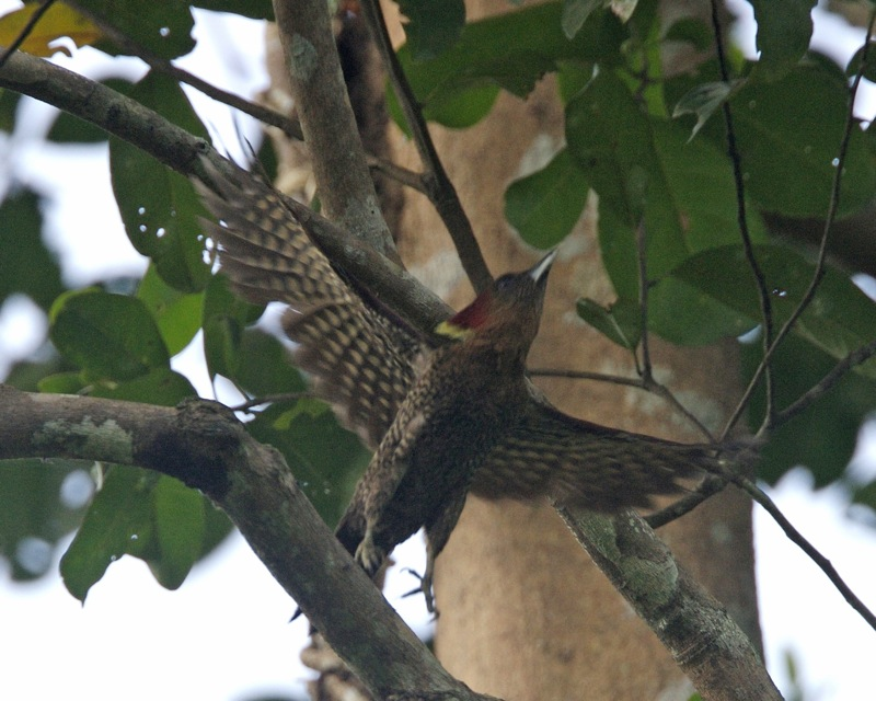 Banded Woodpecker Picus miniaceus malaccensis Pierce Reservoir, Singapore 6th. April 2009 690V4956